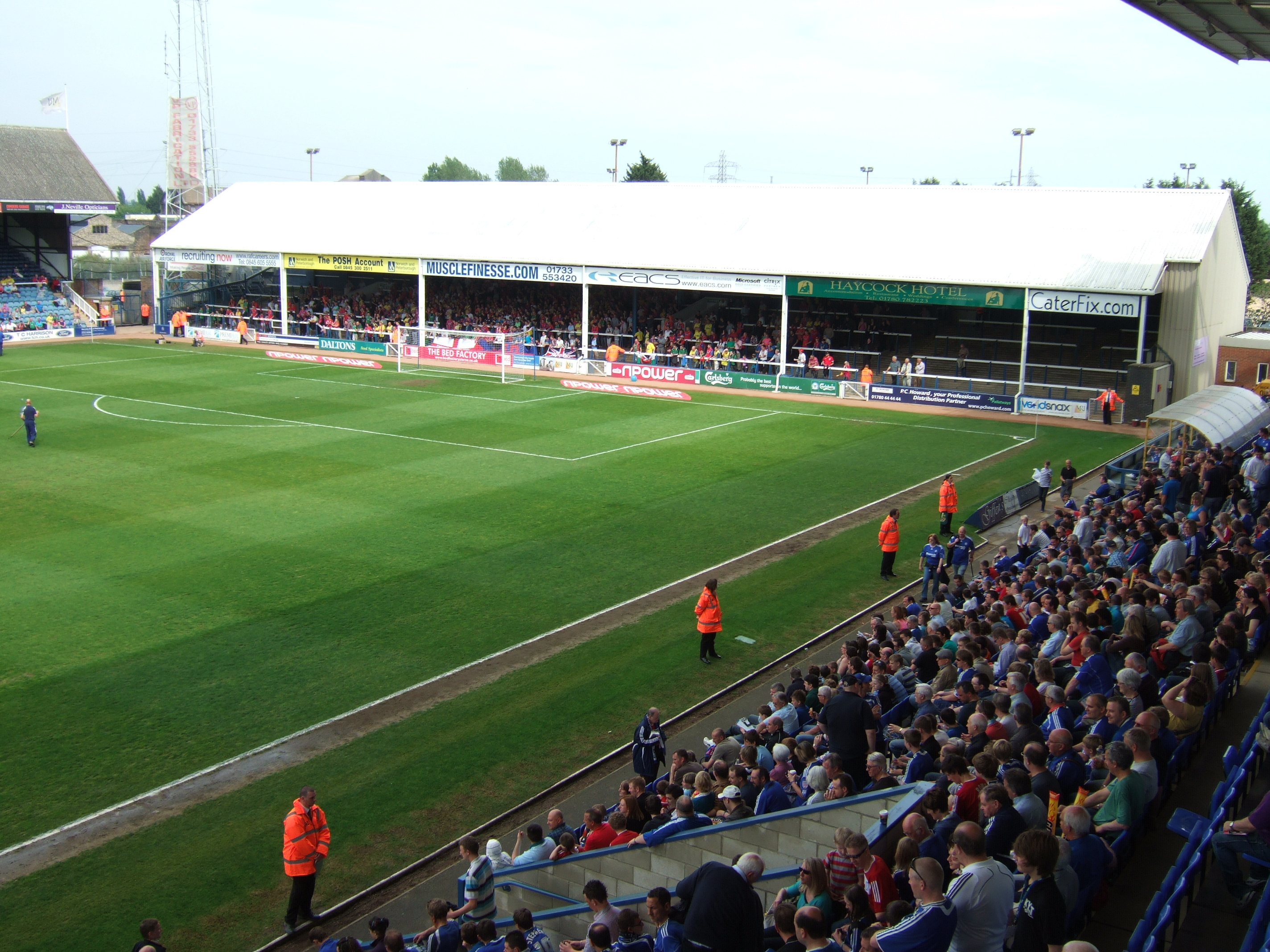 ABAX (London Road) Stadium, Peterborough - A view of the Moy's End